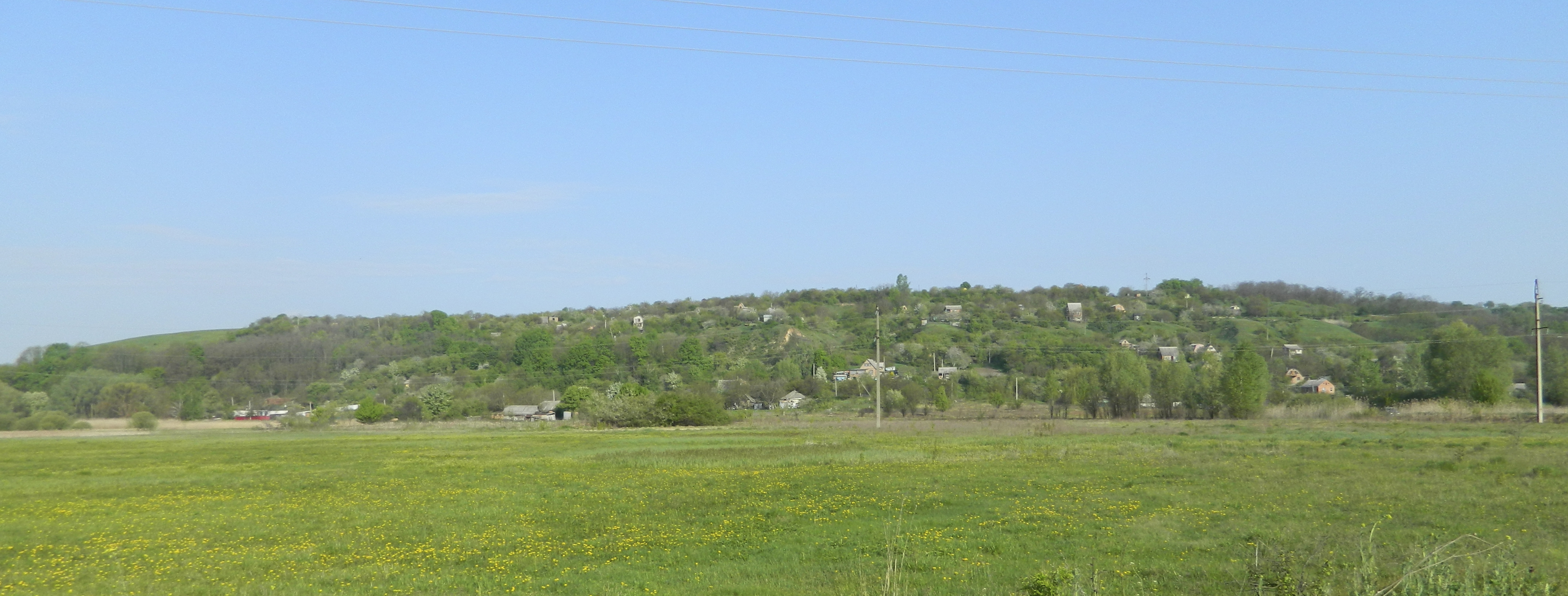 Havrontsi village, Poltava region, Ukraine.